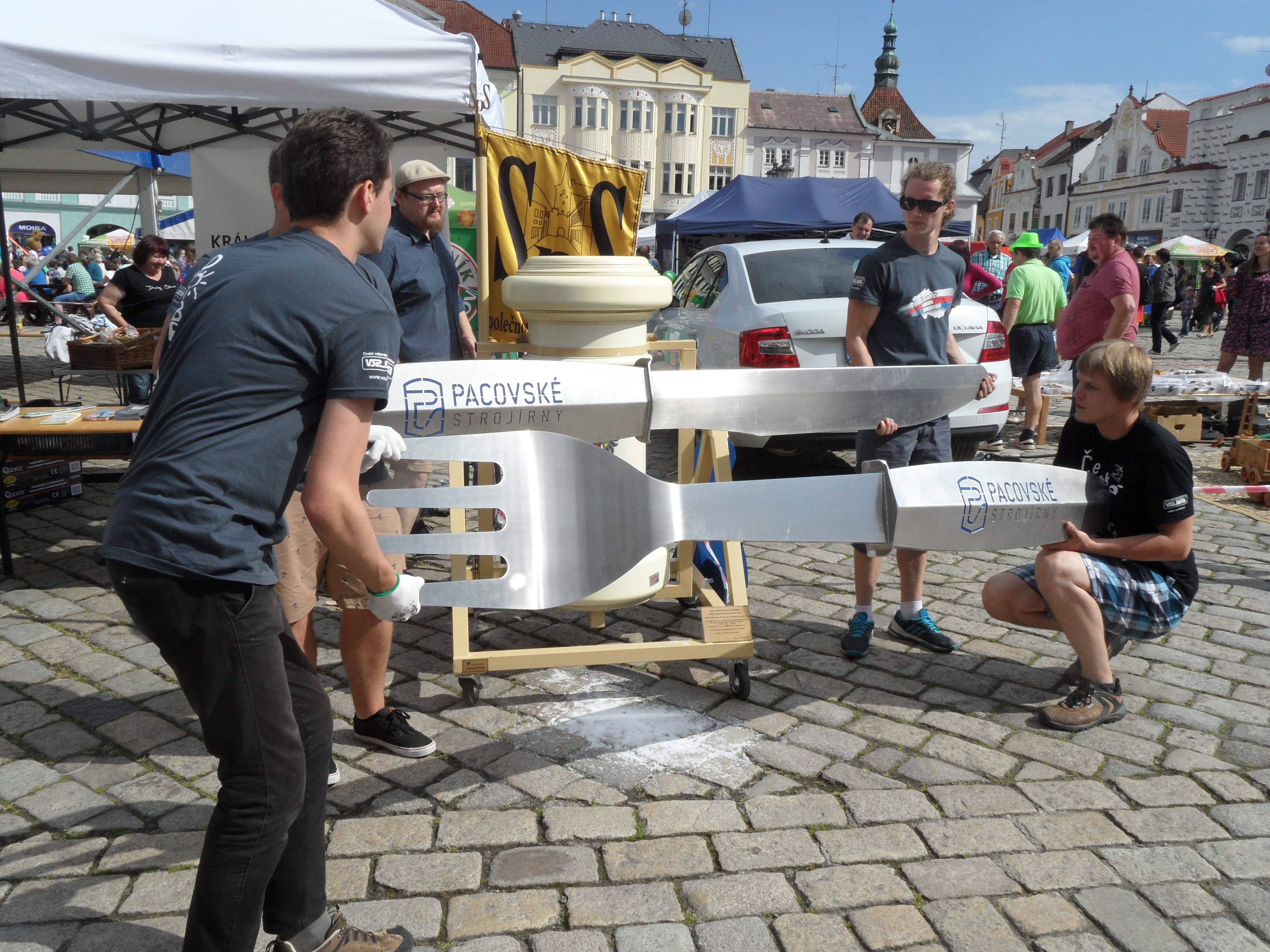 Festival Pelhřimov – the City of Records 2017, Afternoon Programme: the largest knife and fork. Pelhřimov District, the Czech Republic.